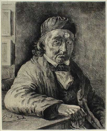 Christian Albrecht Jensen (1792-1870), Danish portrait painter